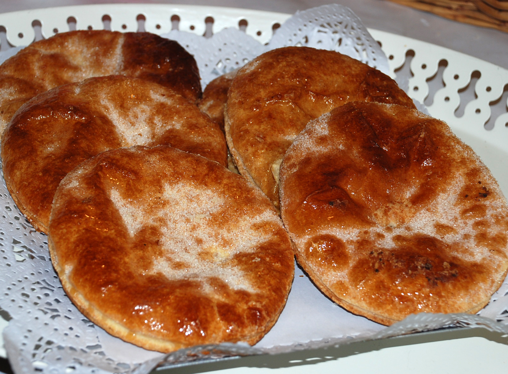 Pantortillas of Reinosa, a typical dessert of Cantabria (Spain).